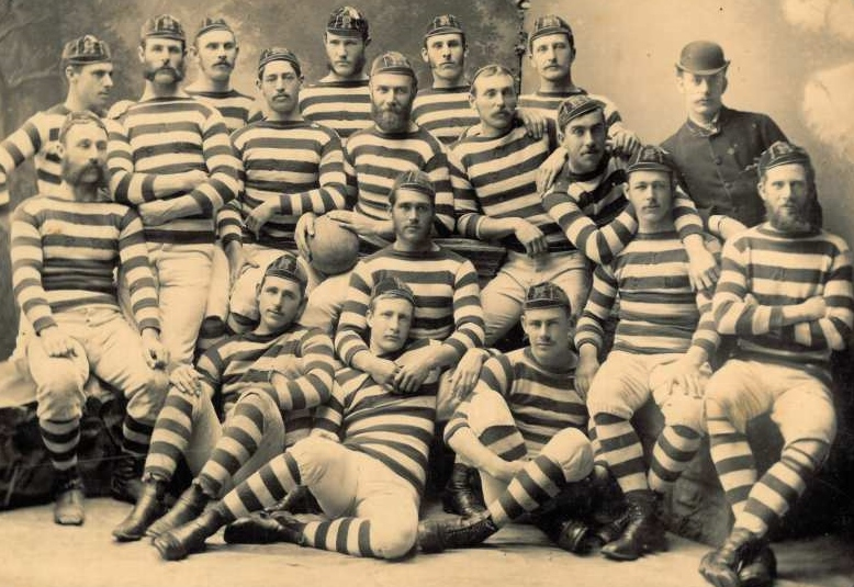 The Auckland provincial rugby union team that toured New Zealand and played Wellington, Canterbury, and Otago. Showing on the back row (from the left): R Whiteside, J Sims, J Mearns, J C Webster, Timothy Behan O'Connor, T Henderson, F Moginie, W Ring, C H Croxton, Thomas Ryan, A Cotter; front row: George Carter, F Clayton, Joe Warbrick, J Arneil, John Lecky, C (P?) Spencer, R Biggs.